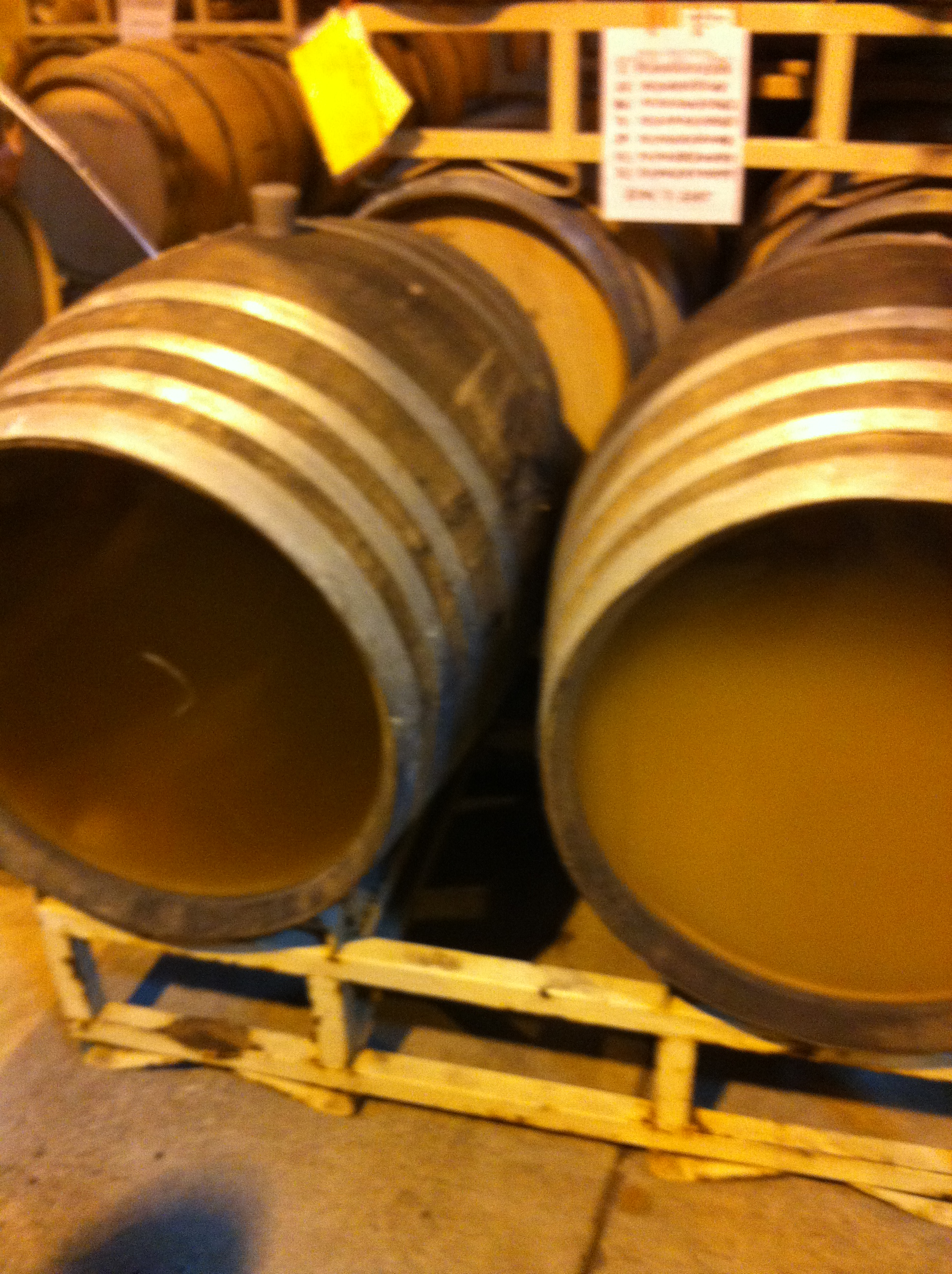 An example of Chardonnay wines being sur lie aged in barrel with one of the barrel heads removed on each barrel to show what the wine looks like. The example on the right had just been stirred (batonnage) with the lees and particulate suspended throughout the wine. The example on the left has not been stirred in almost a week with the lees all settled to the bottom.